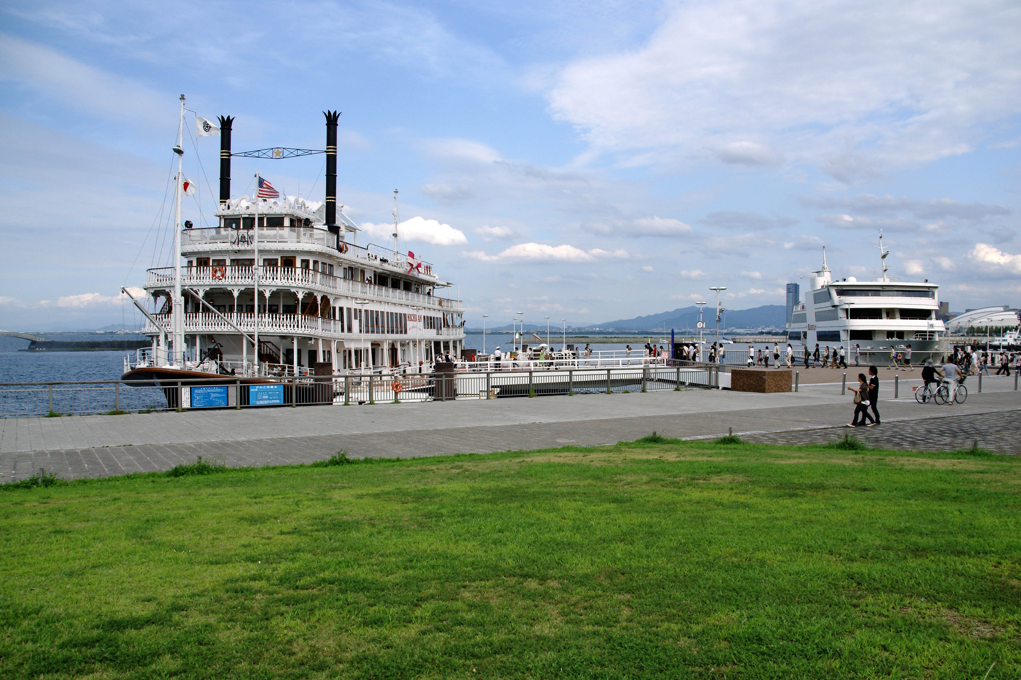 Otsu port in Otsu, Shiga prefecture, Japan